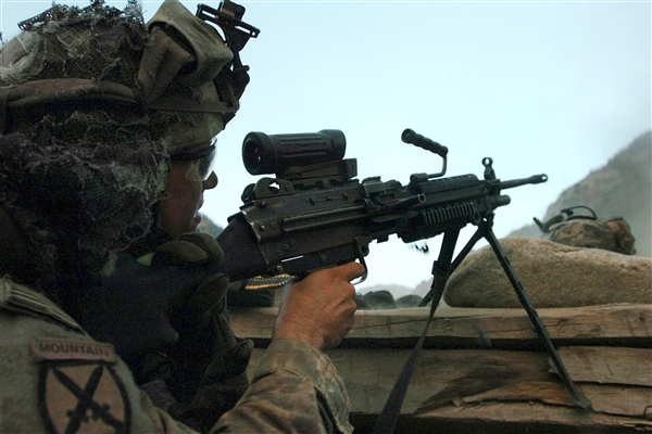 A solider from the 10th Mountain Division(LT) in Afghanistan.